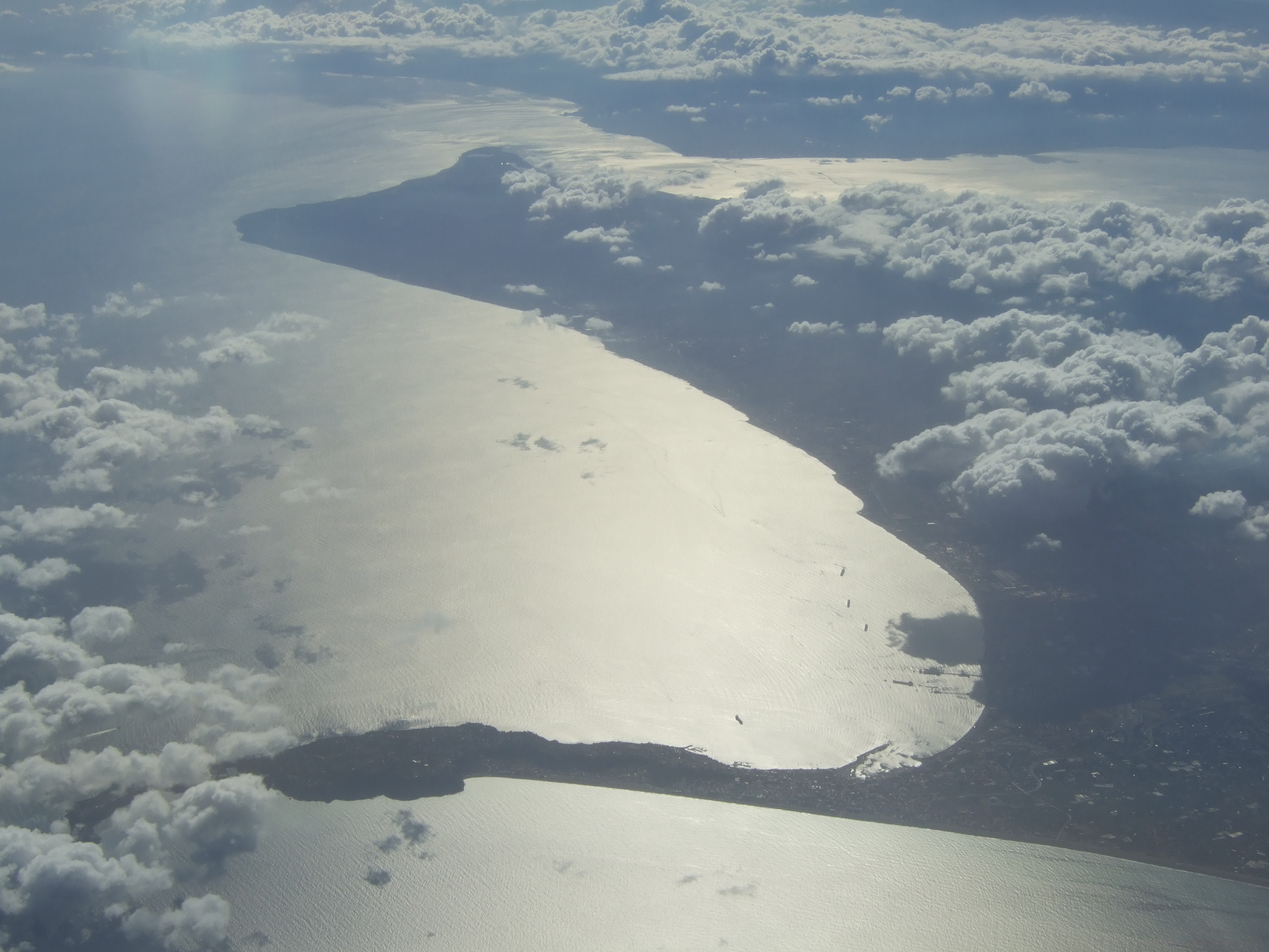 Capo di Milazzo and the Strait of Messina (summer 2010), picture taken from an airplane